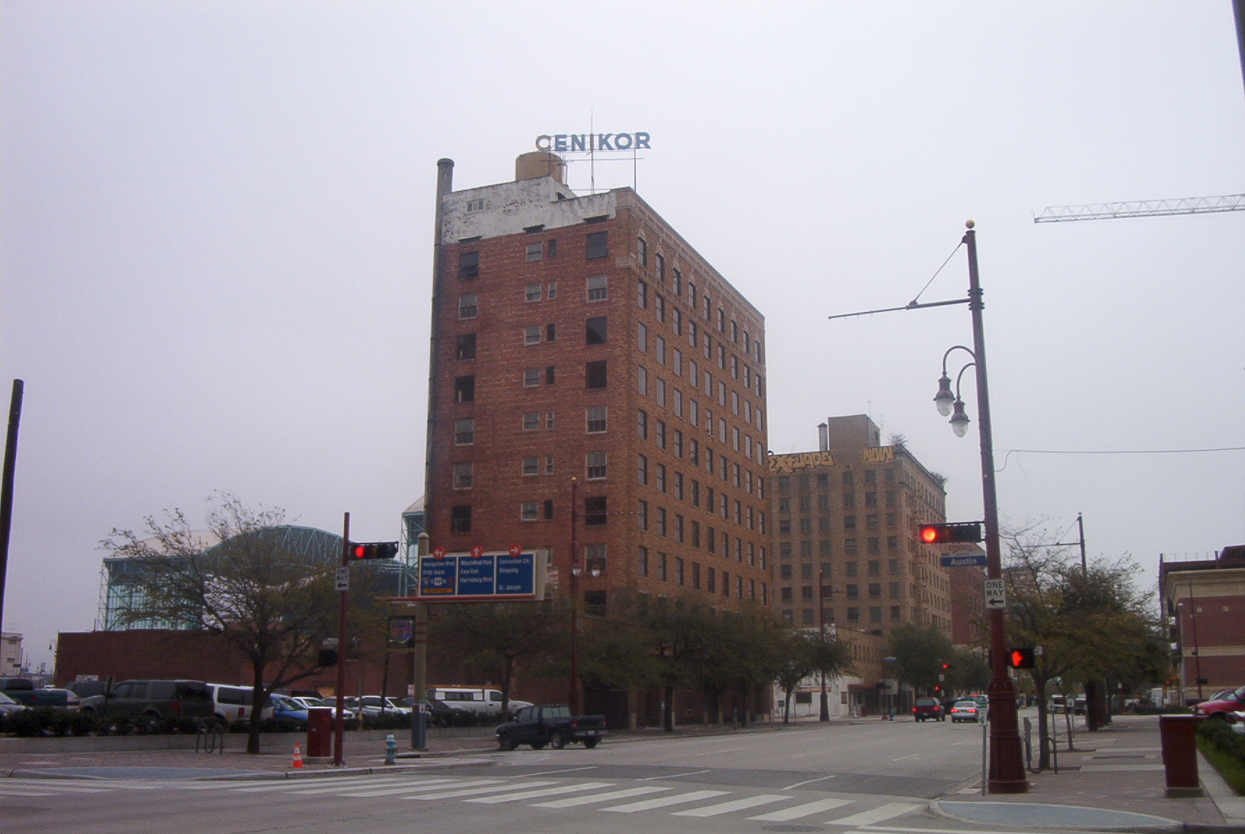 William Penn hotel in downtown Houston that Cenikor operated a long-term treatment facility out of from the late 70s until the mid 90s.